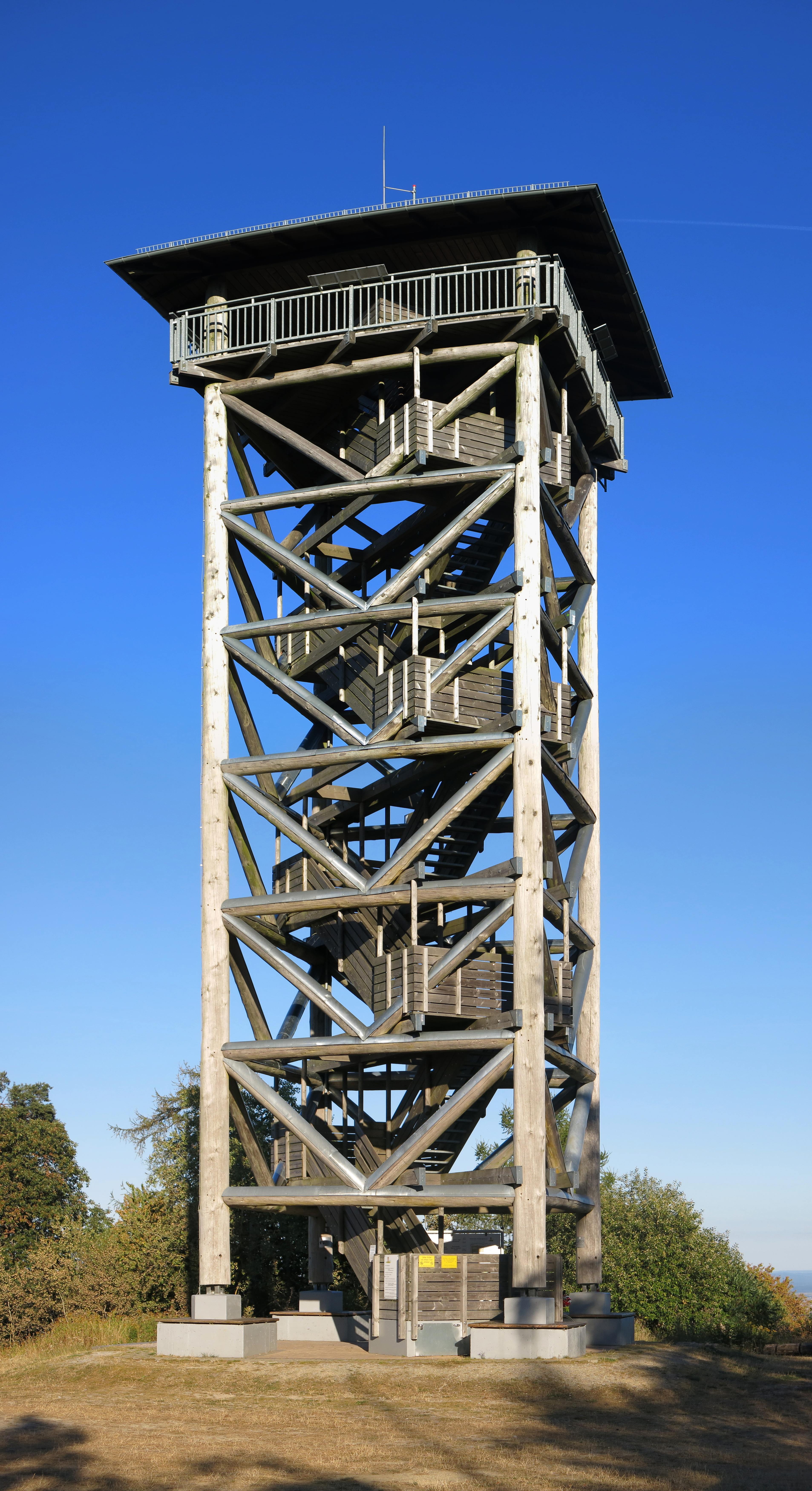 Lookout-Tower on the Hausberg in the Taunus-Mountains.